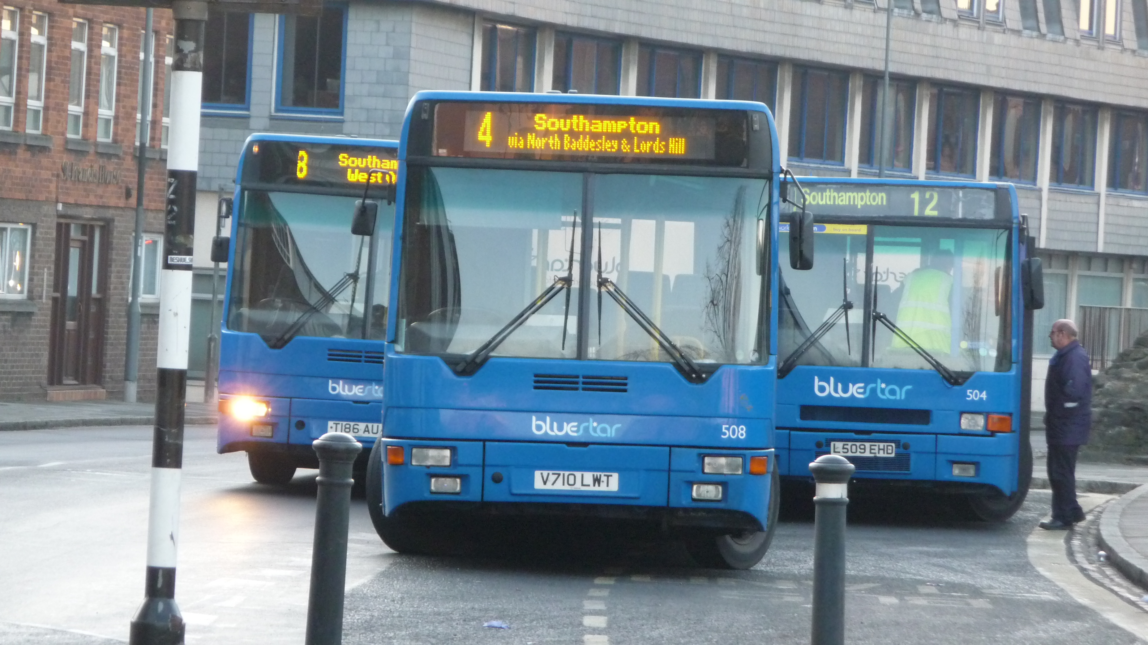 From left to right, seen here are Bluestar 506 (T186 AUA), and 508 (V710 LWT), both DAF SB220/Ikarus CitiBus 481s, and 504 (L509 EHD), a DAF SB220/Ikarus CitiBus 480. They are all seen in Castle Way, Southampton, laying over between duties on routes 8, 4 and 12 respectively. They are seen a couple of months before Citaros transferred from Southern Vectis displaced them to the reserve fleet.